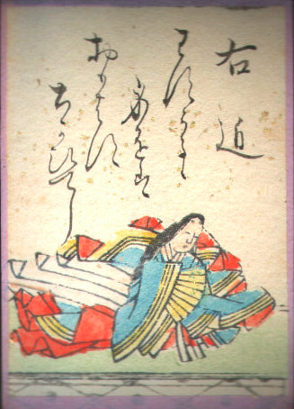 A portrait of Ukon; illustration from an uta-garuta playing card for Hyakunin Isshu, created in the Edo period.